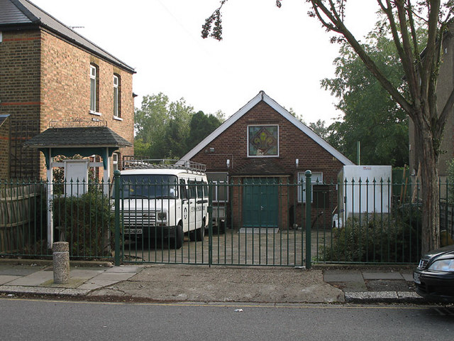 15th Finchley Scouts HQ Home of the 15th Finchley scouts on Grove Road. The Scouts Fleur-de-lys is proudly displayed in stained glass above the door. Minibus and trailer for camping expeditions are parked in the yard.